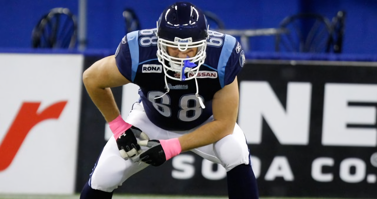 Zachary Pollari vs the Edmonton Eskimos